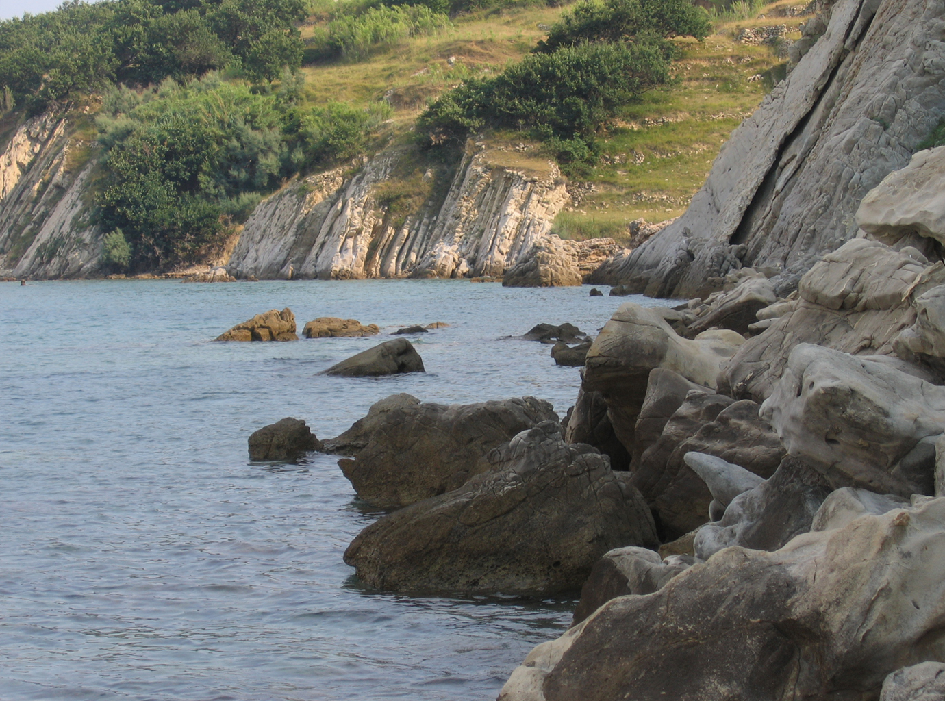 Dubrava - Hanzina protected landscape